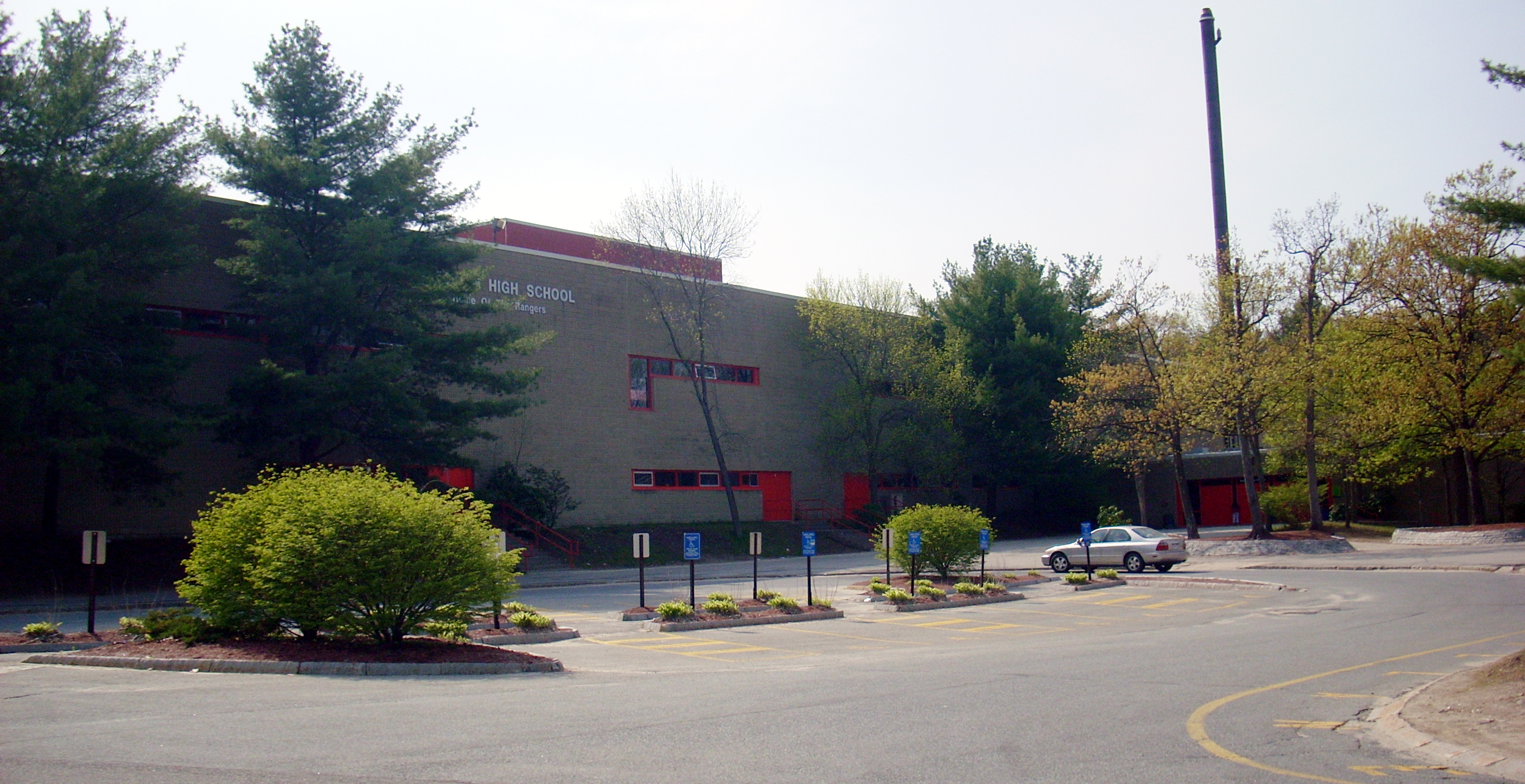 Methuen High School, 1 Ranger Road, Methuen, Massachusetts